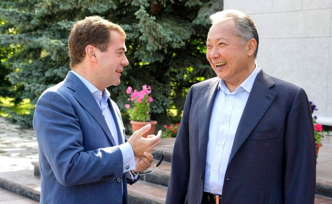 CHOLPON-ATA, KYRGYZSTAN. With President of Kyrgyzstan Kurmanbek Bakiyev.